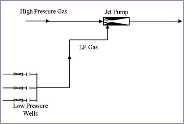 Jet Pump